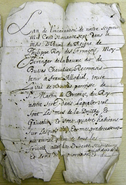 Church of St-Martin-de-Corconac